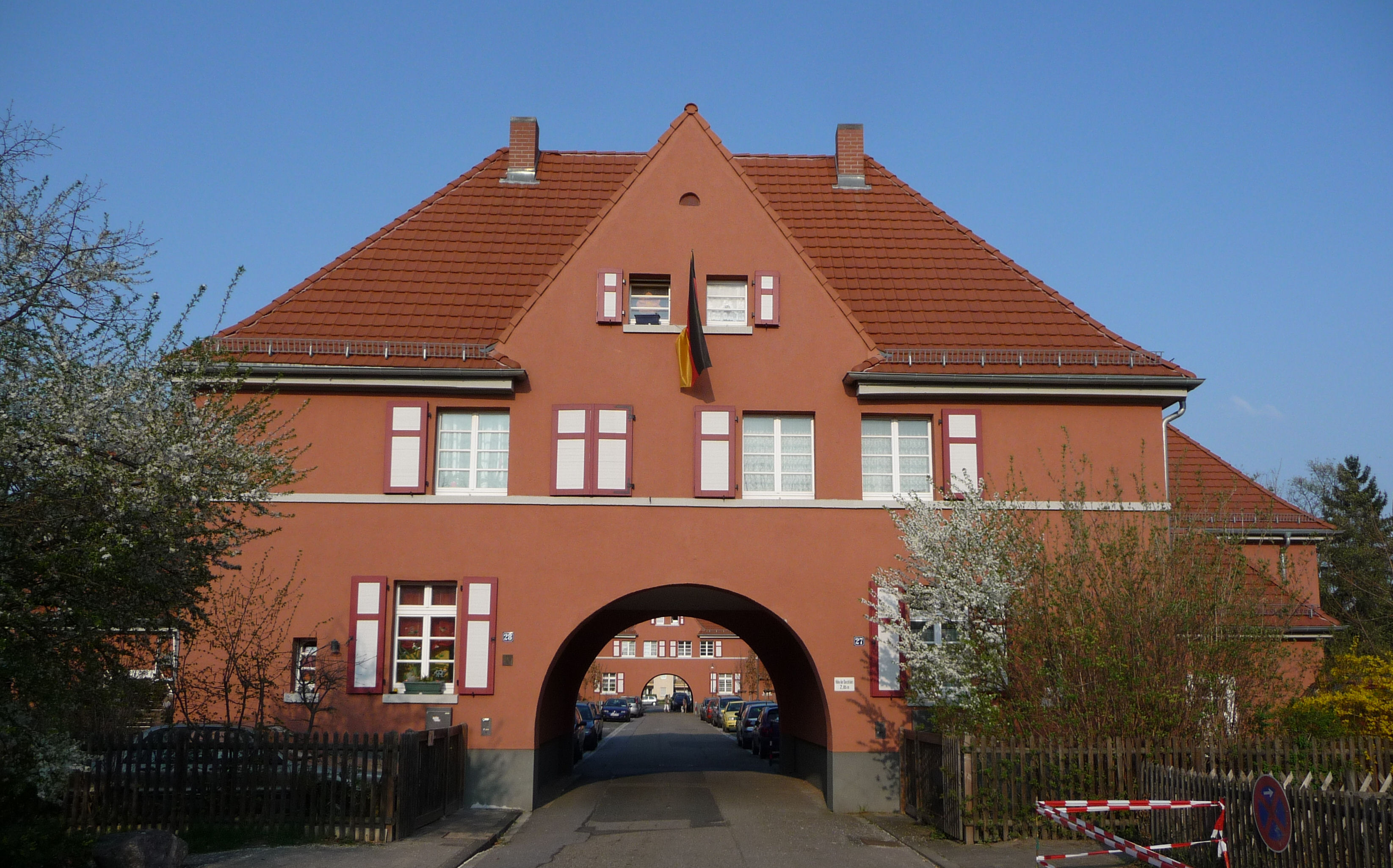 street in Ludwigshafen, Germany